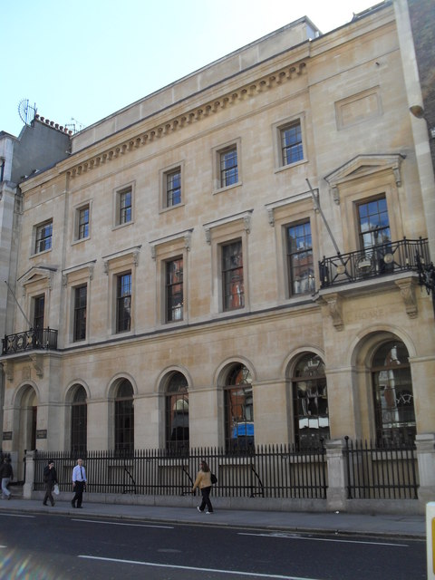 37 Fleet Street Built by Charles Parker in 1830 (Pevsner,N/Bradley,S: "The City of London", 1957-rev 1996,New Haven & London, Yale University Press ISBN 0 300 09624 0).